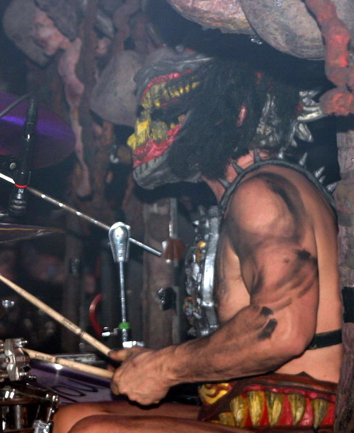 Jizmak da Gusha of GWAR Live in Concert